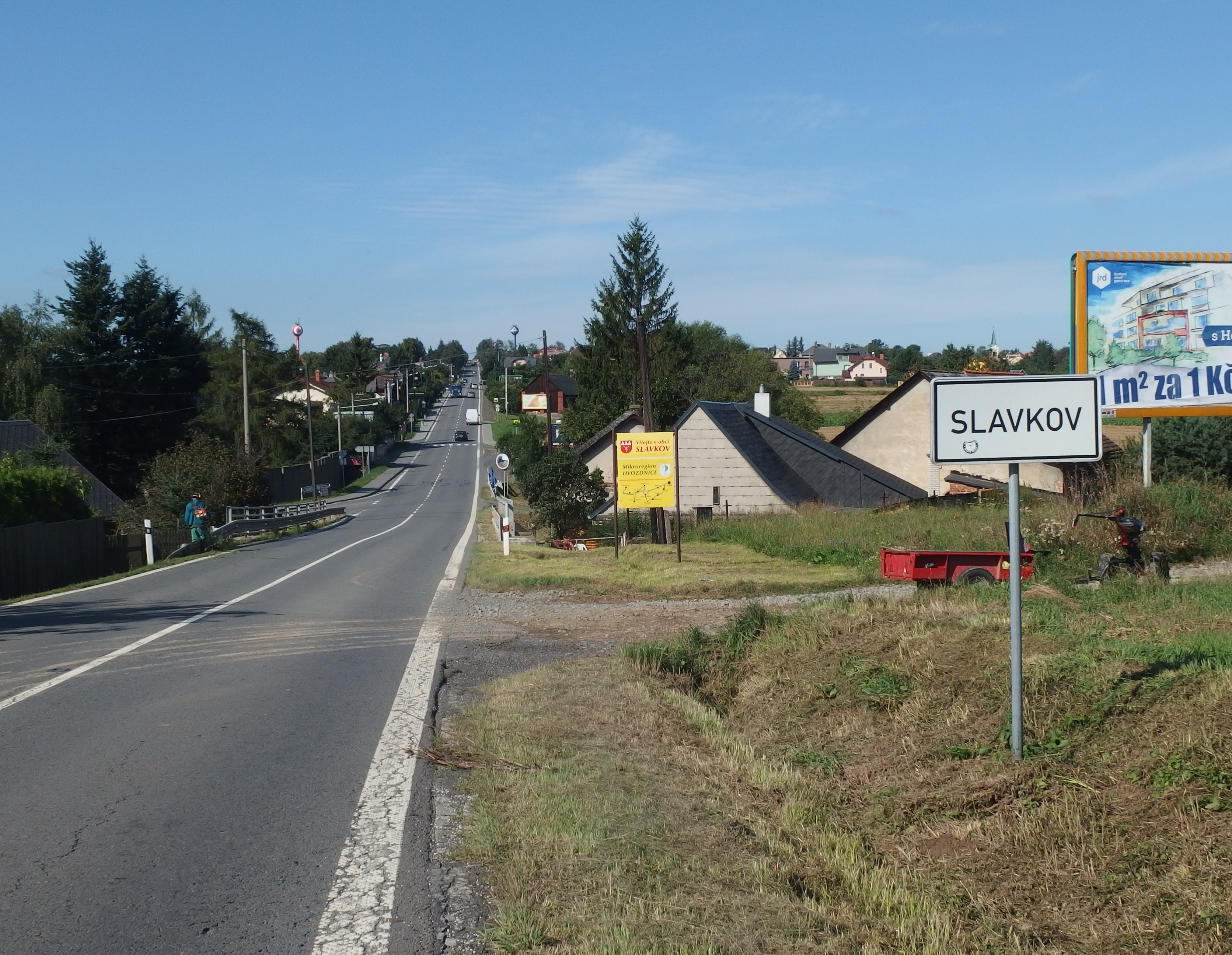 Slavkov, Opava District, Czech Republic.